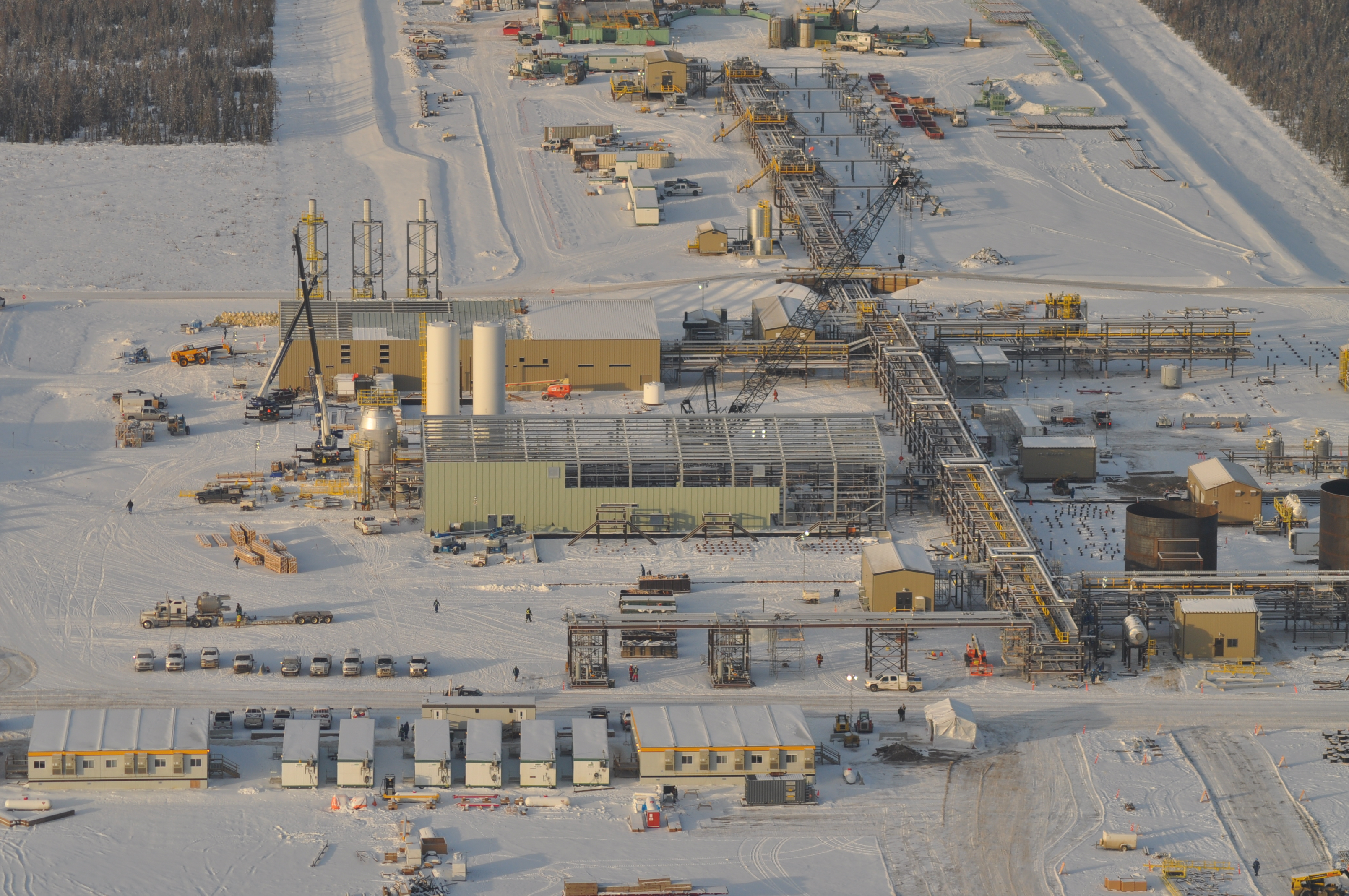 Aerial picture of the Germain central plant under construction